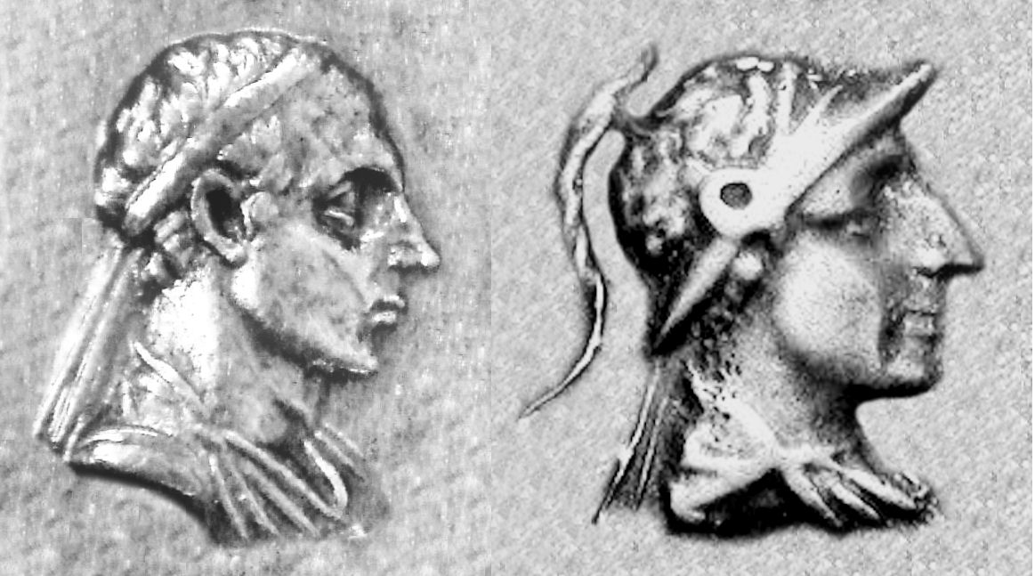 Menander I and Menander II